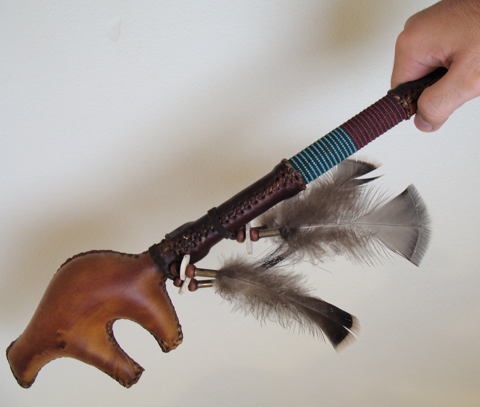 A replica of a traditional Native American rattle